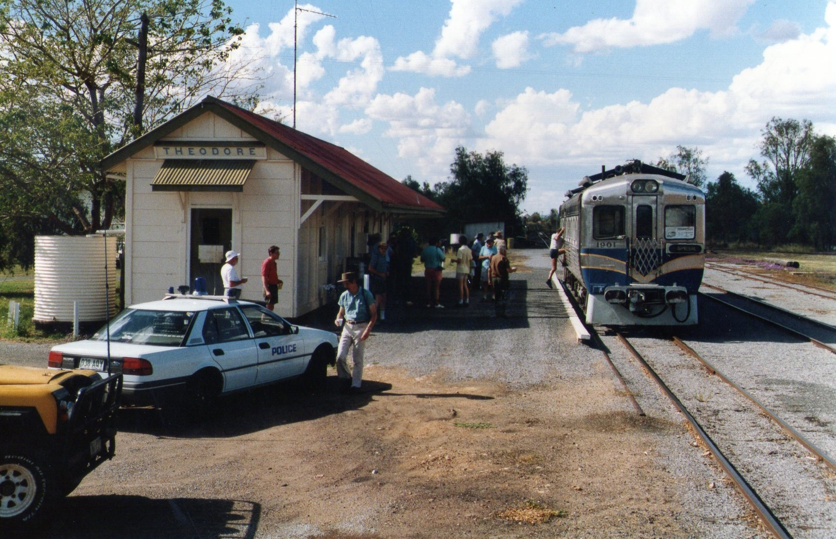 RM 1901 at Theodore Station, ~1990